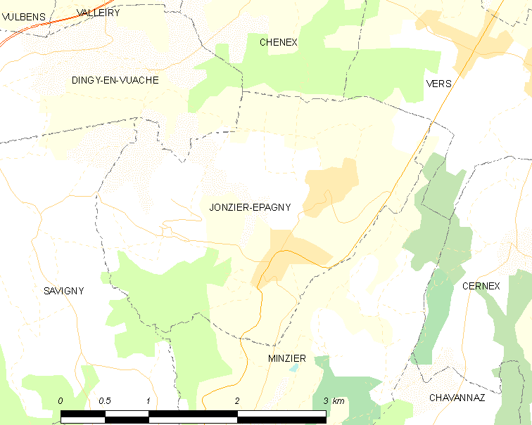 Map of French municipality Jonzier-Épagny